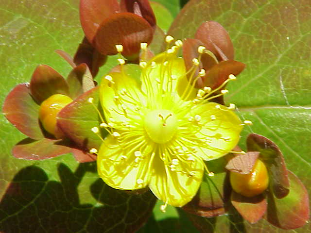 Species: Hypericum androsaemum Family: Hypericaceae Image No. 3